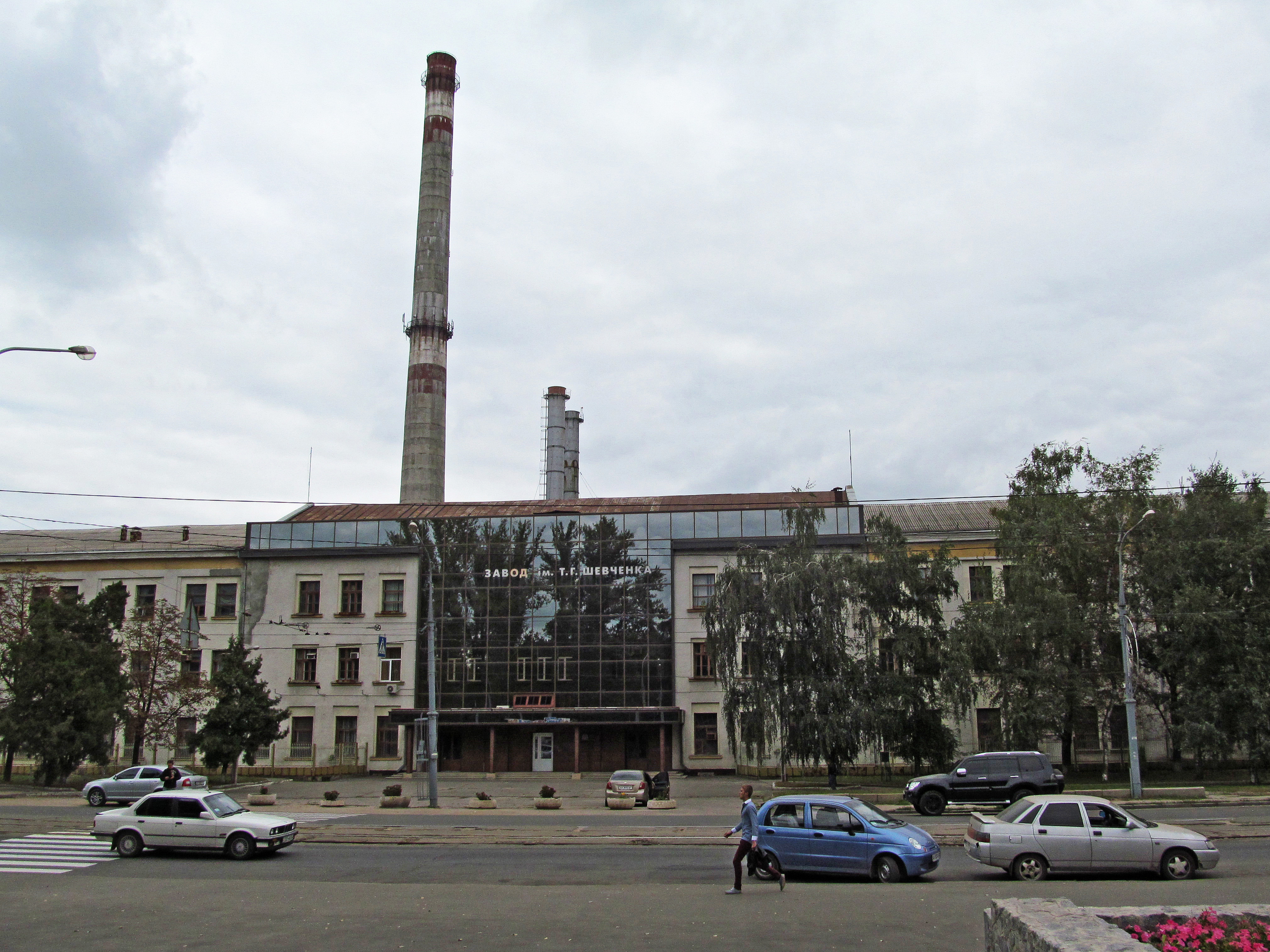 Moskalivska street, 99, Kharkiv, Ukraine. Shevchenko Plant.